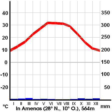 Climate diagram (in German) of In Aménas in Algeria created with